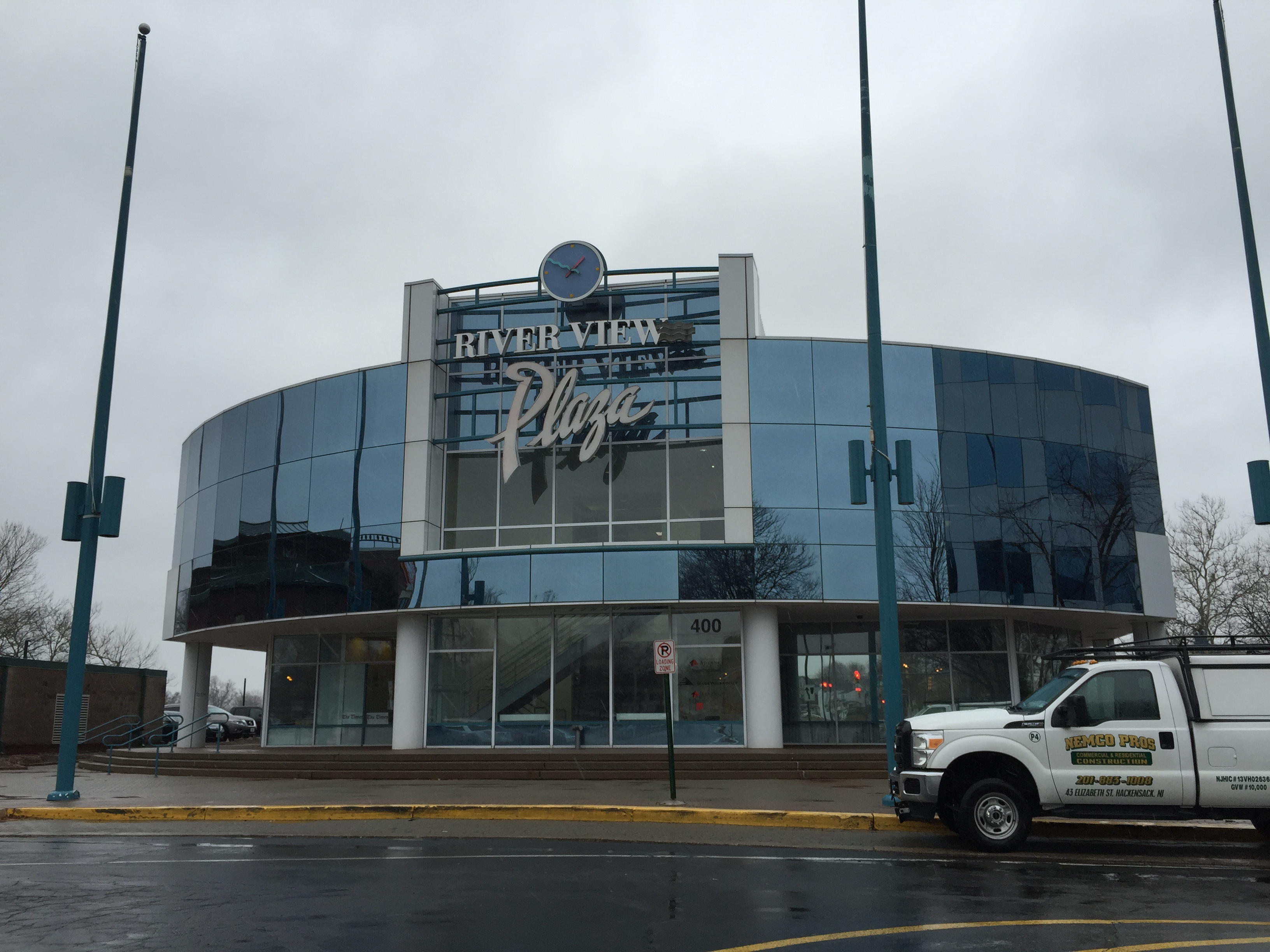 The front of River View Plaza in the Waterfront section of Trenton, New Jersey